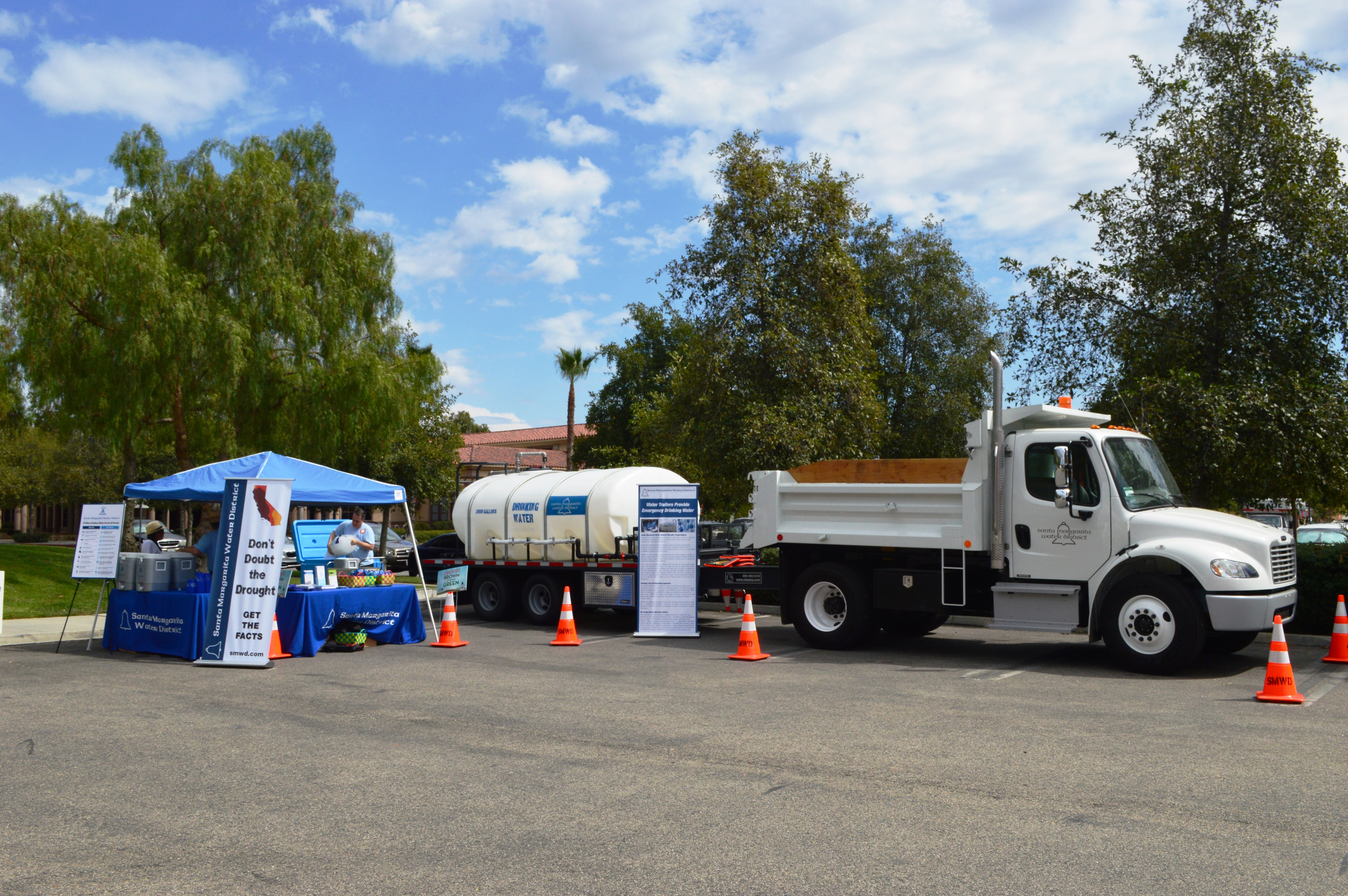 Santa Margarita Water District (SMWD) booth with a truck and a water trailer at Patriot Day 2014 - Rancho Santa Margarita, California.